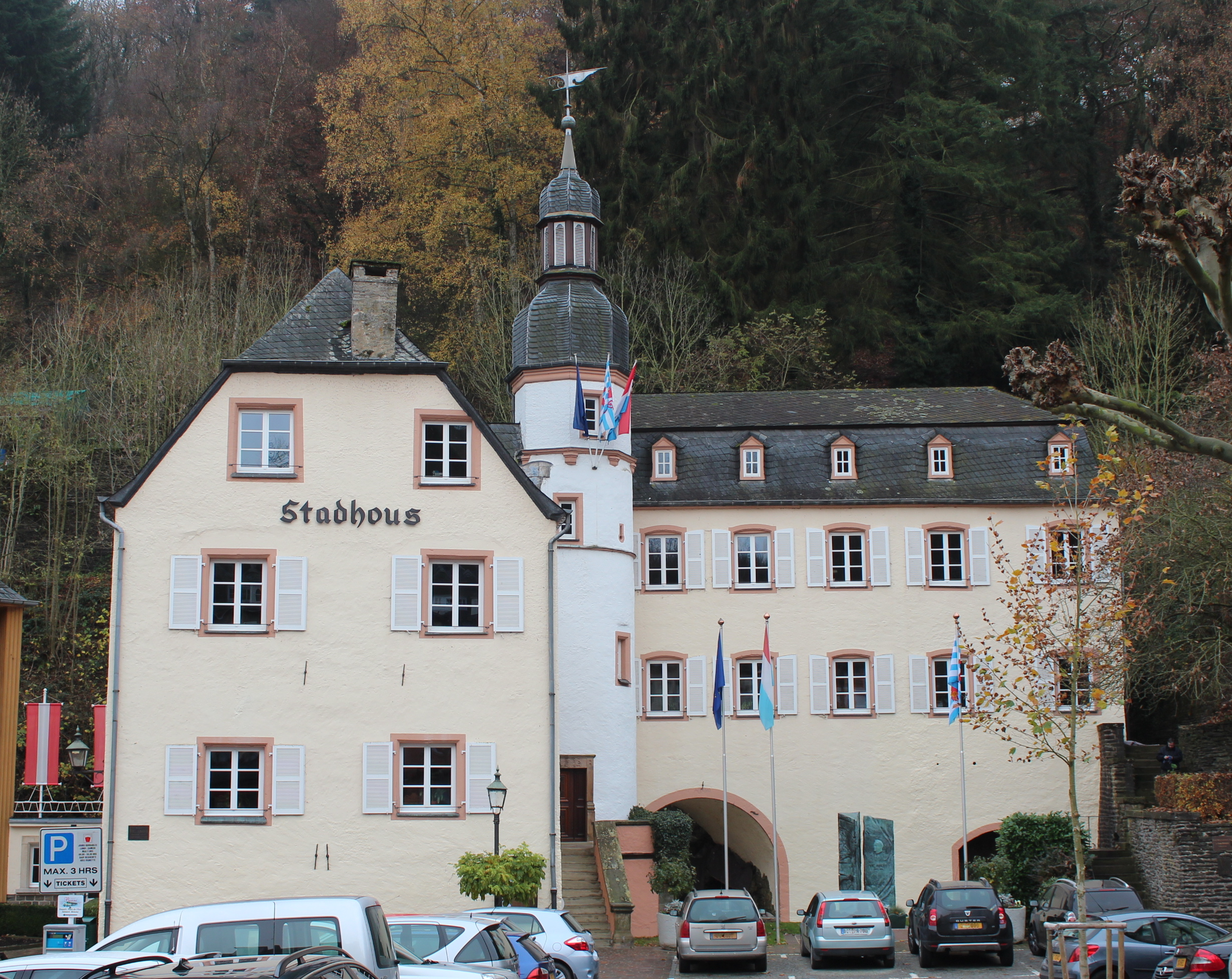 Town hall Vianden, Luxembourg